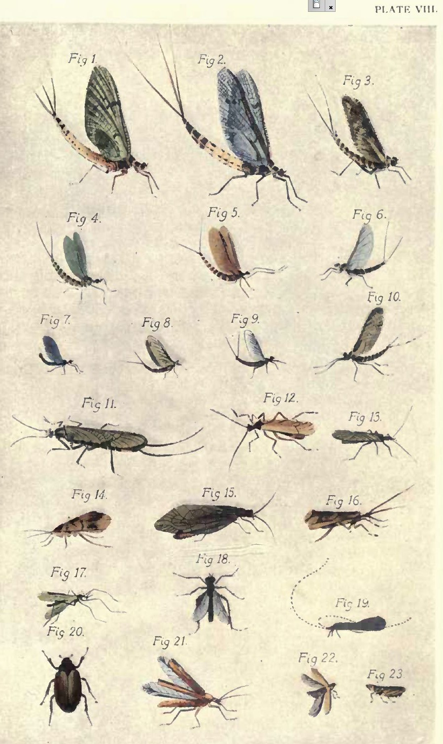 Plate VIII-Natural Trout Flies from A Book on Angling, Francis Francis, 1920 edition